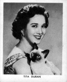 Filipina actress Tita Duran. The image is owned by Sampaguita Pictures and was released in the late 1940s to promote the actress who starred in their films. The image according to Filipino law copyright has now expired and now in the public domain.